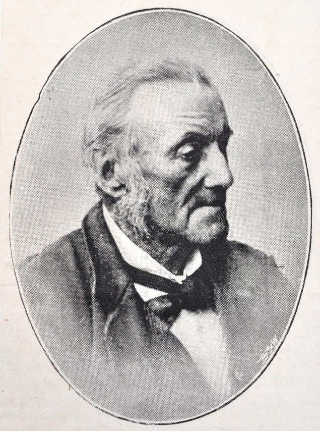 Image of Francis Alfred Skidmore